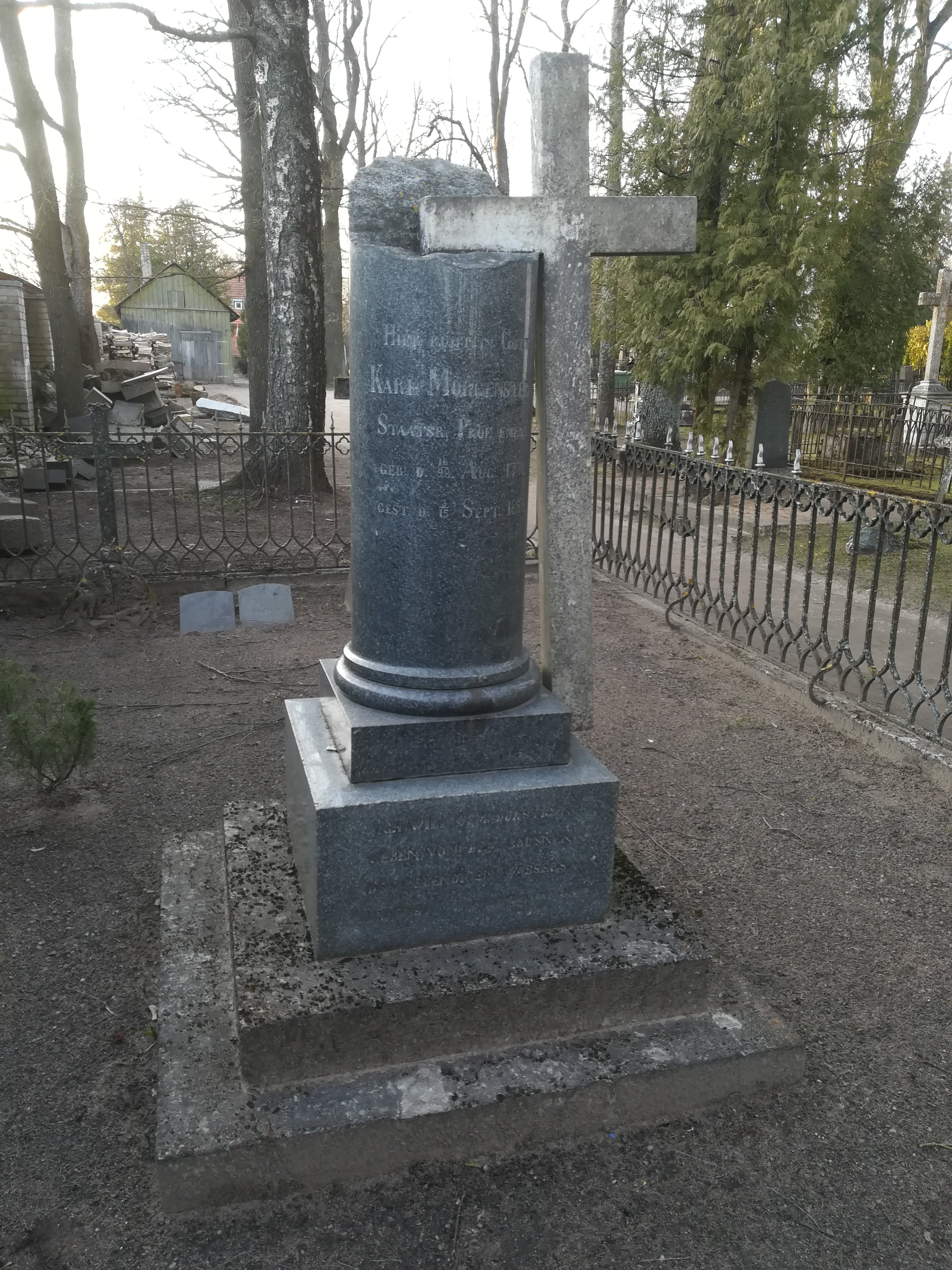 Tombstone of Johann Karl Simon Morgenstern (1770–1852) in Raadi Cemetery, Tartu, Estonia